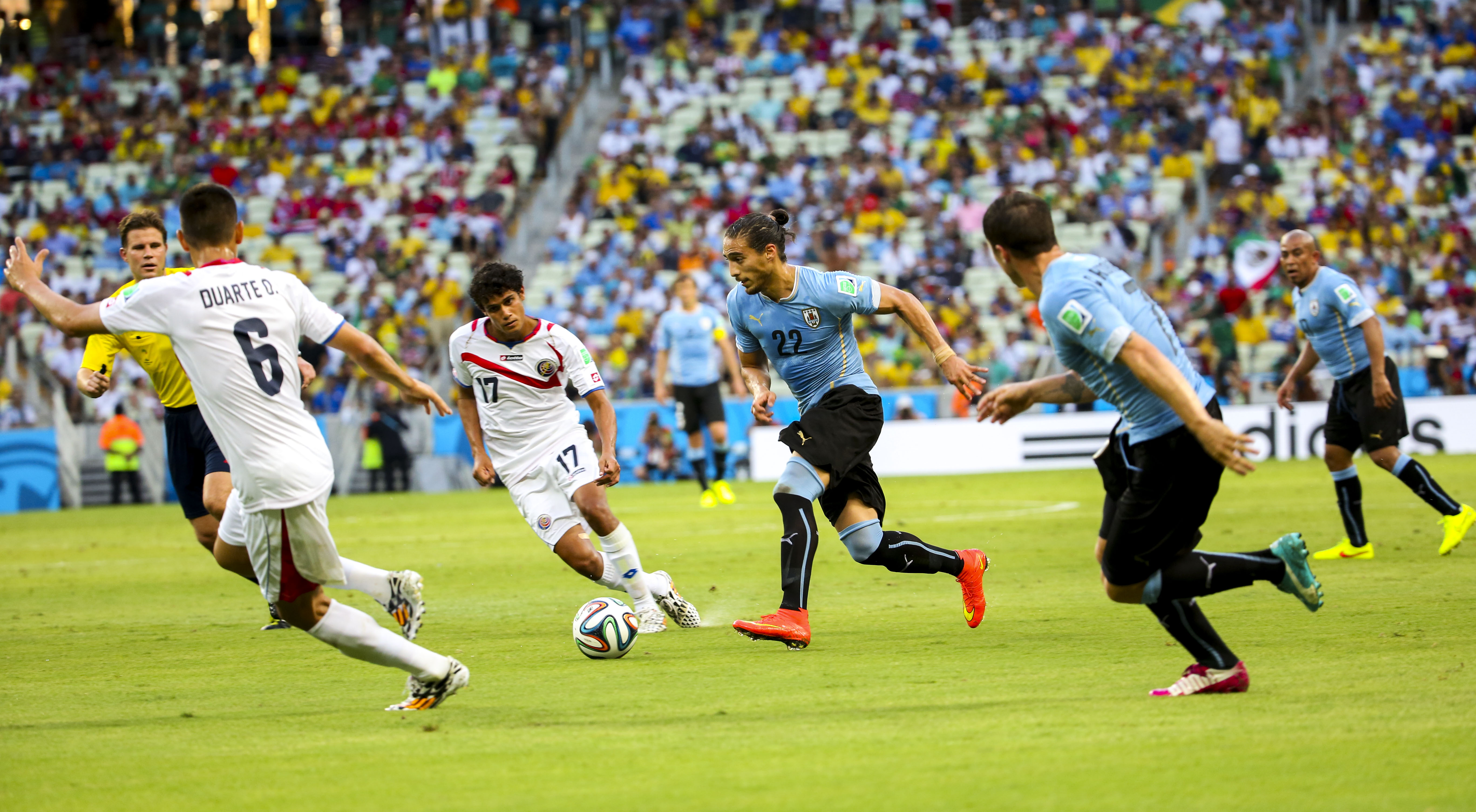 Uruguay and Costa Rica match at the FIFA World Cup 2014-06-14